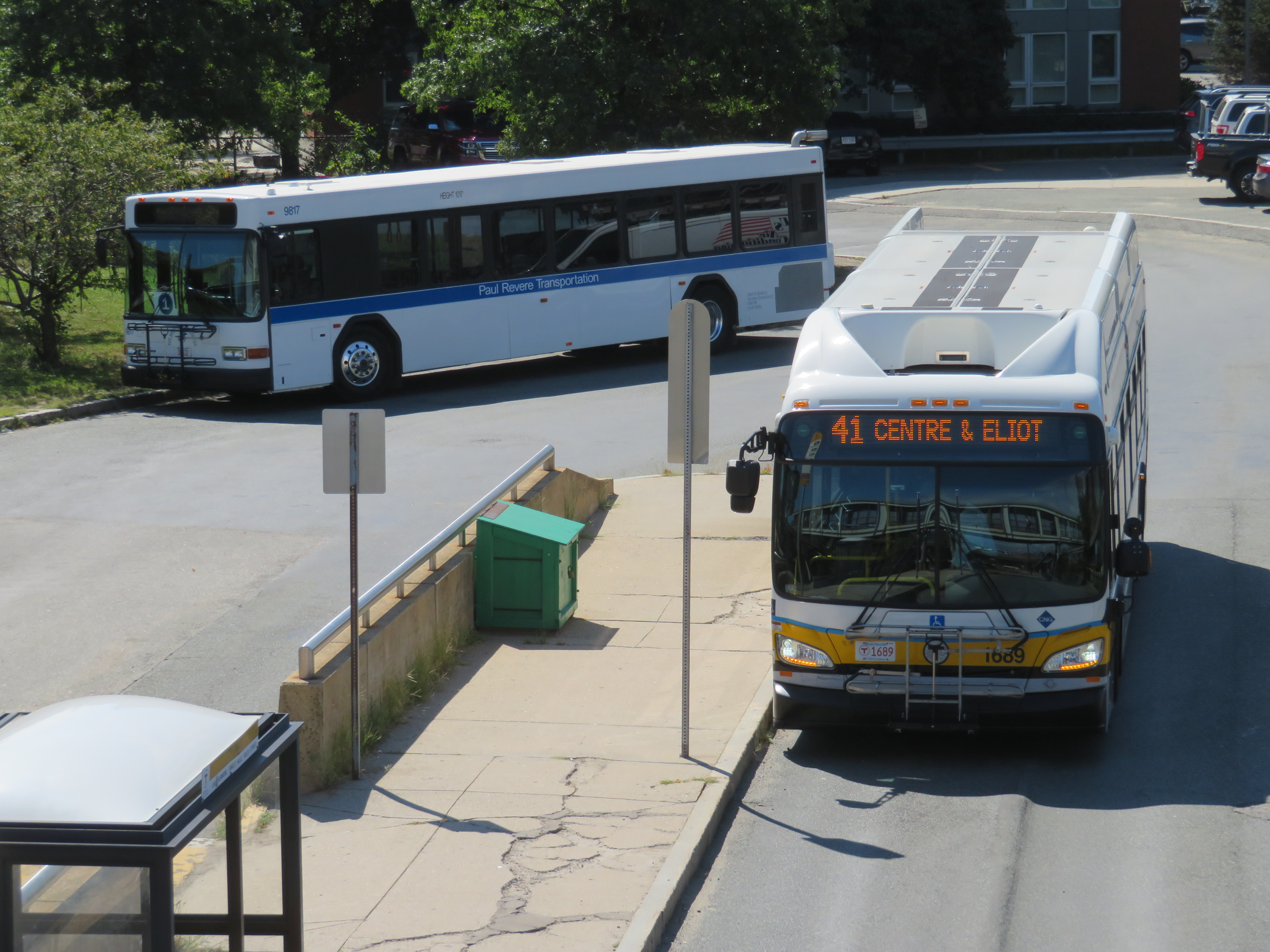 UMass shuttle bus and MBTA route 41 bus at JFK/UMass station in August 2018